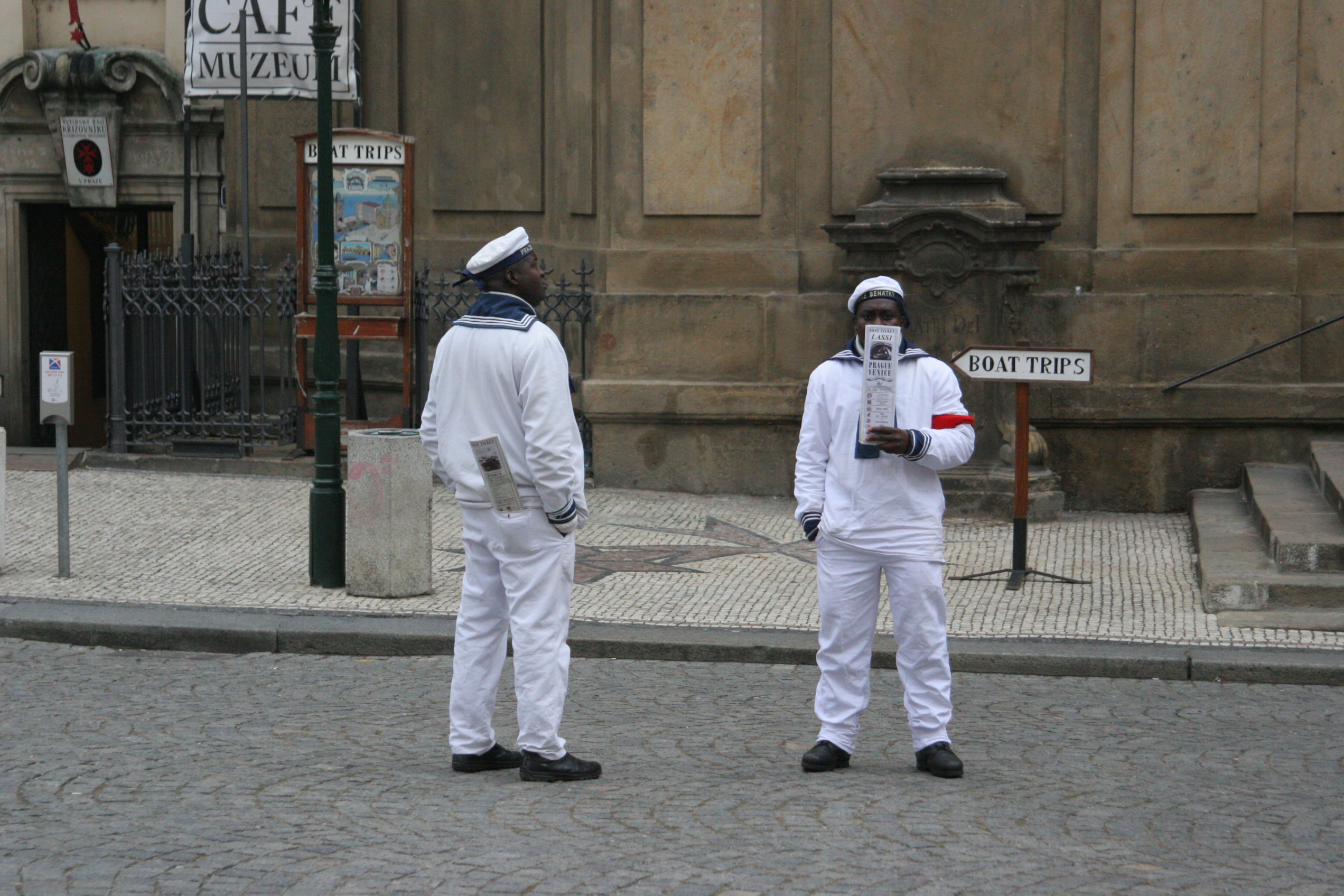 Prague, Czech republic November 2012